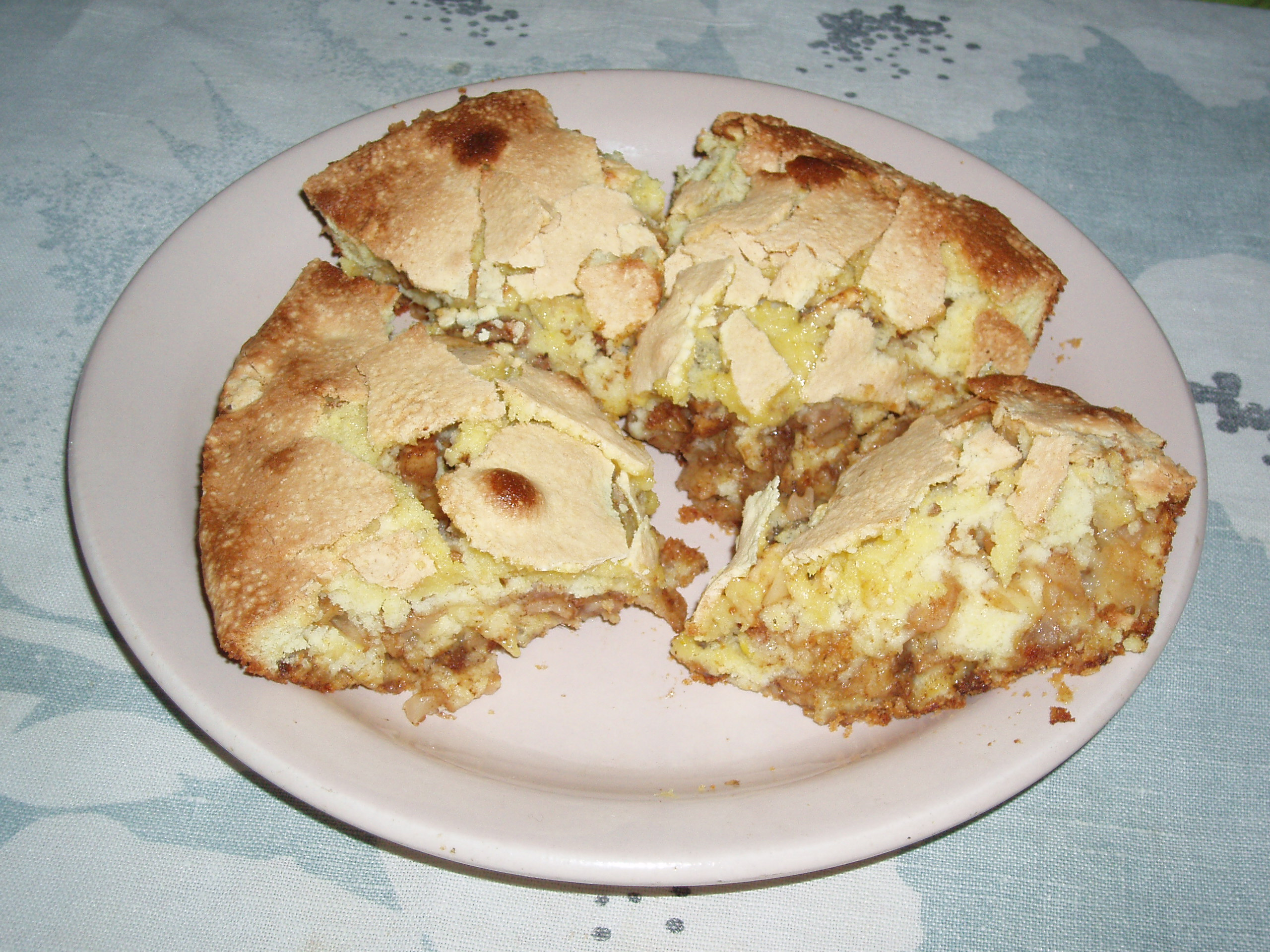 Pieces of Charlotte cake